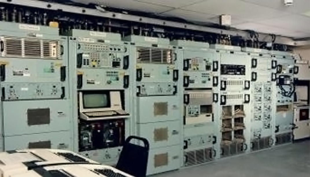 Department of Defense Air Force Strategic Automated Command and Control System based IBM Series/1 computers. GAO 16-468